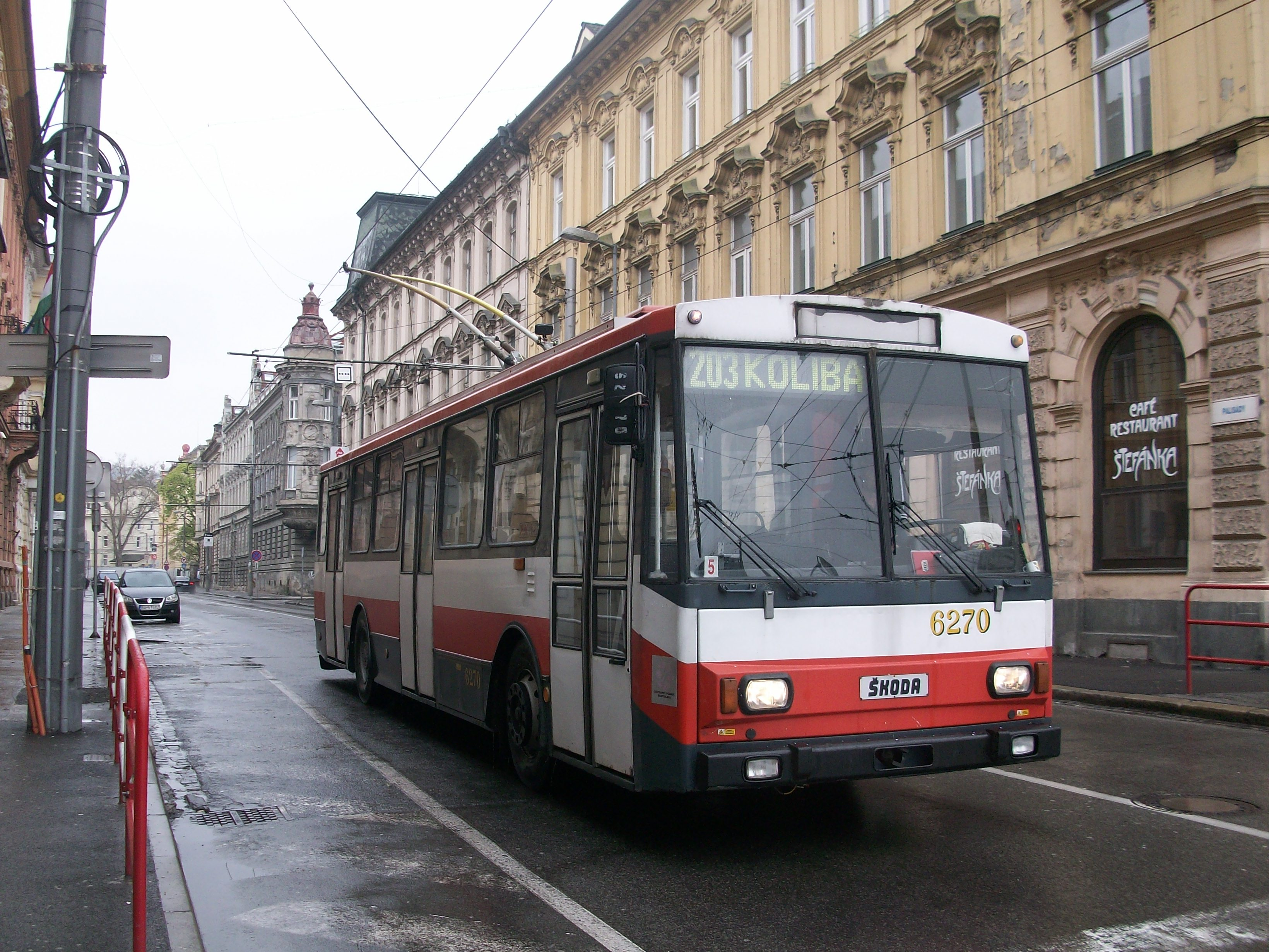 Trolleybus Skoda, Bratislava